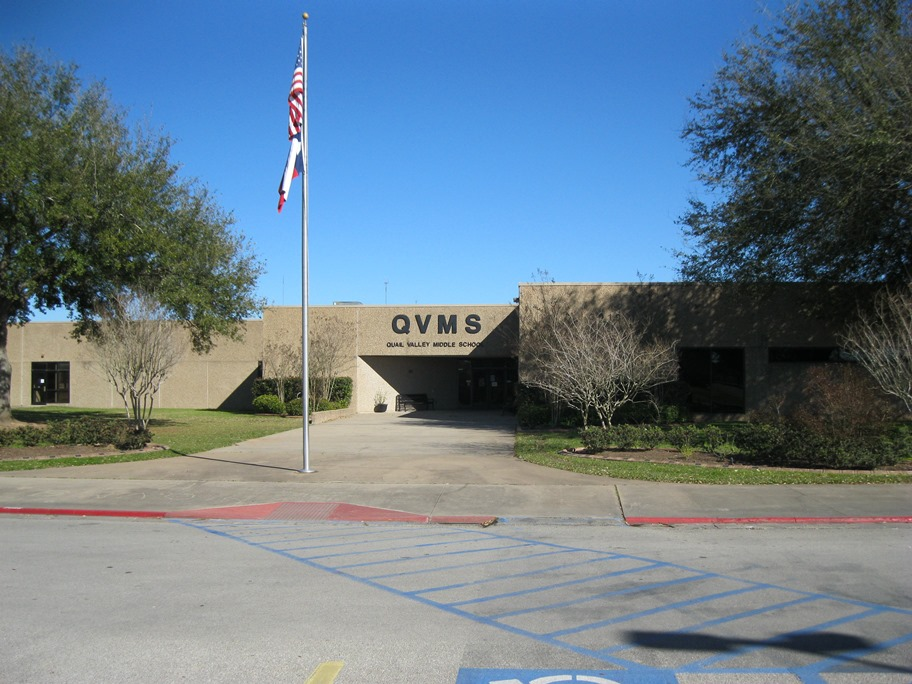 Photo shows Quail Valley Middle School in Fort Bend Independent School District in Missouri City, Texas. Building is on the east side of FM 1092 at Plantation Settlement Lane. View is east.